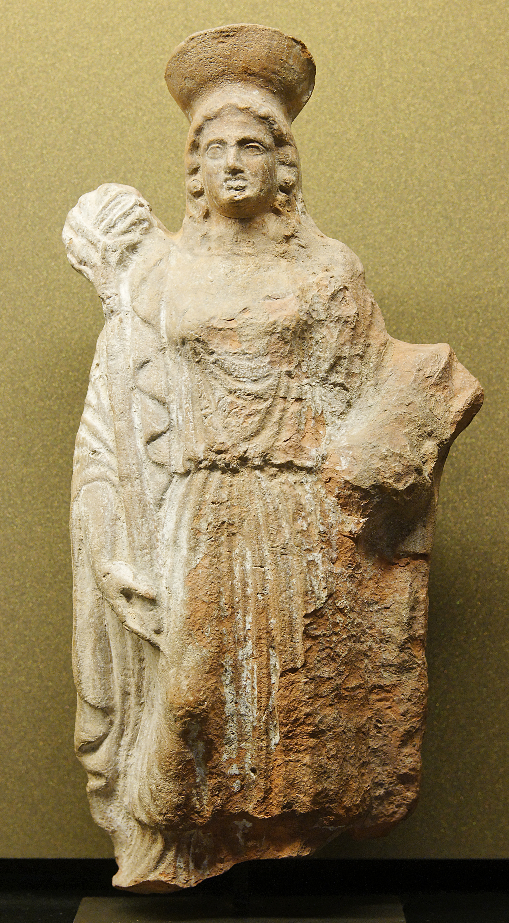 Female piglet and torch carrier, taking part in the worship of Demeter and Persephone. Terracotta figurine, Attic artwork, ca.140–130 BC. From Eleusis.